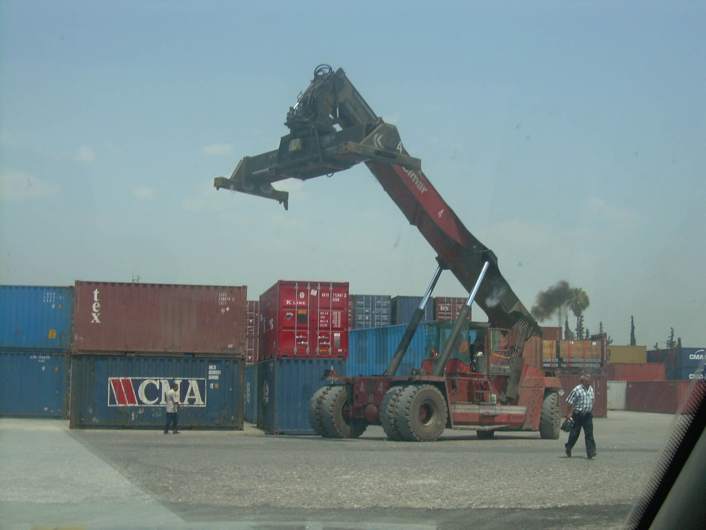 A Crane for transporting and lifting containers in the harbour, useful for stacking